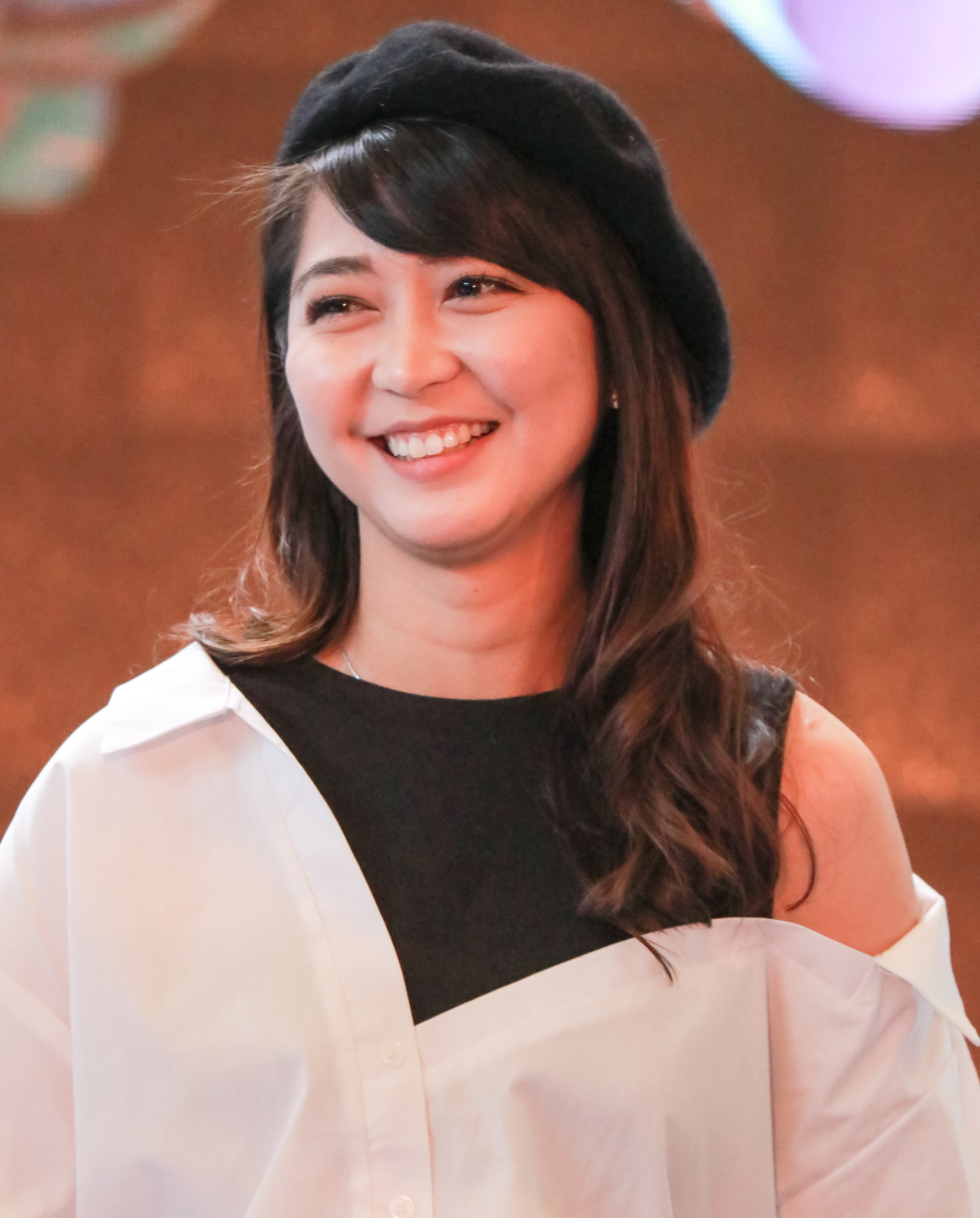 Jessica Veranda on 20 October 2019